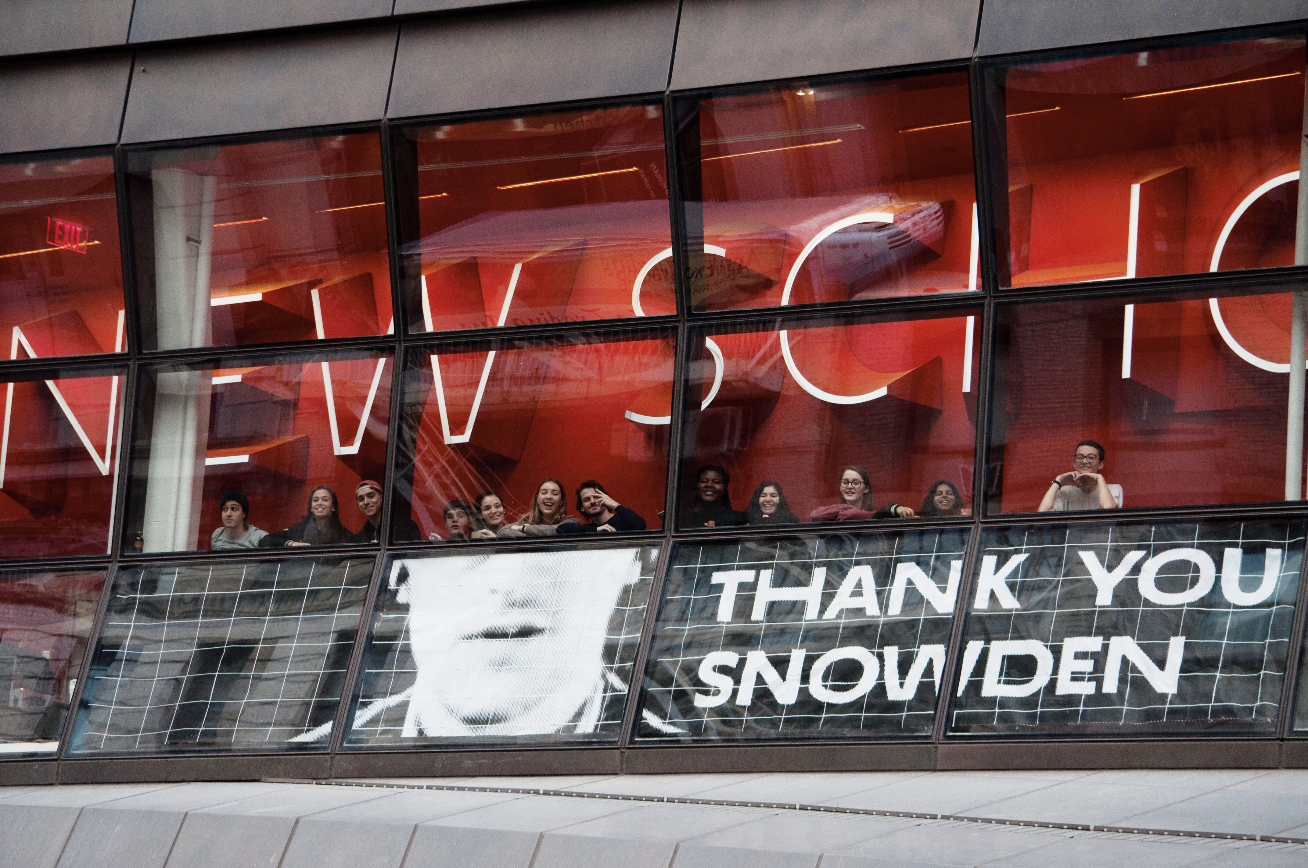 Taken April 27, 2015 at the New School for Social Research, New York